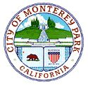 Official seal of the city of Monterey Park, California